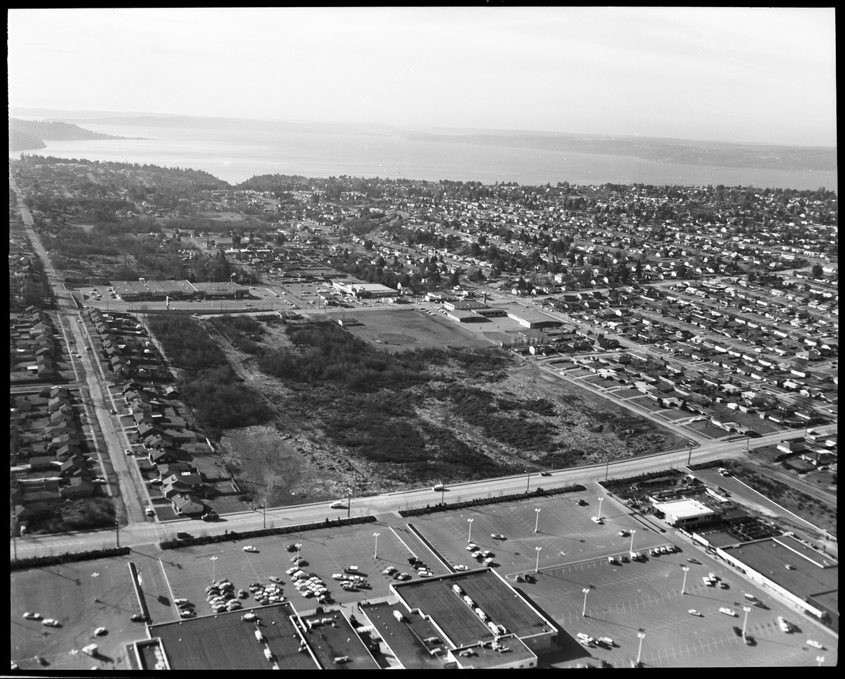 Aerial photograph of Roxhill neighborhood of West Seattle, Seattle, Washington, 1969. Westwood Village is in the foreground. Puget Sound lies in the distance. Item 77618, Forward Thrust Photographs (Record Series 5804-04), Seattle Municipal Archives.